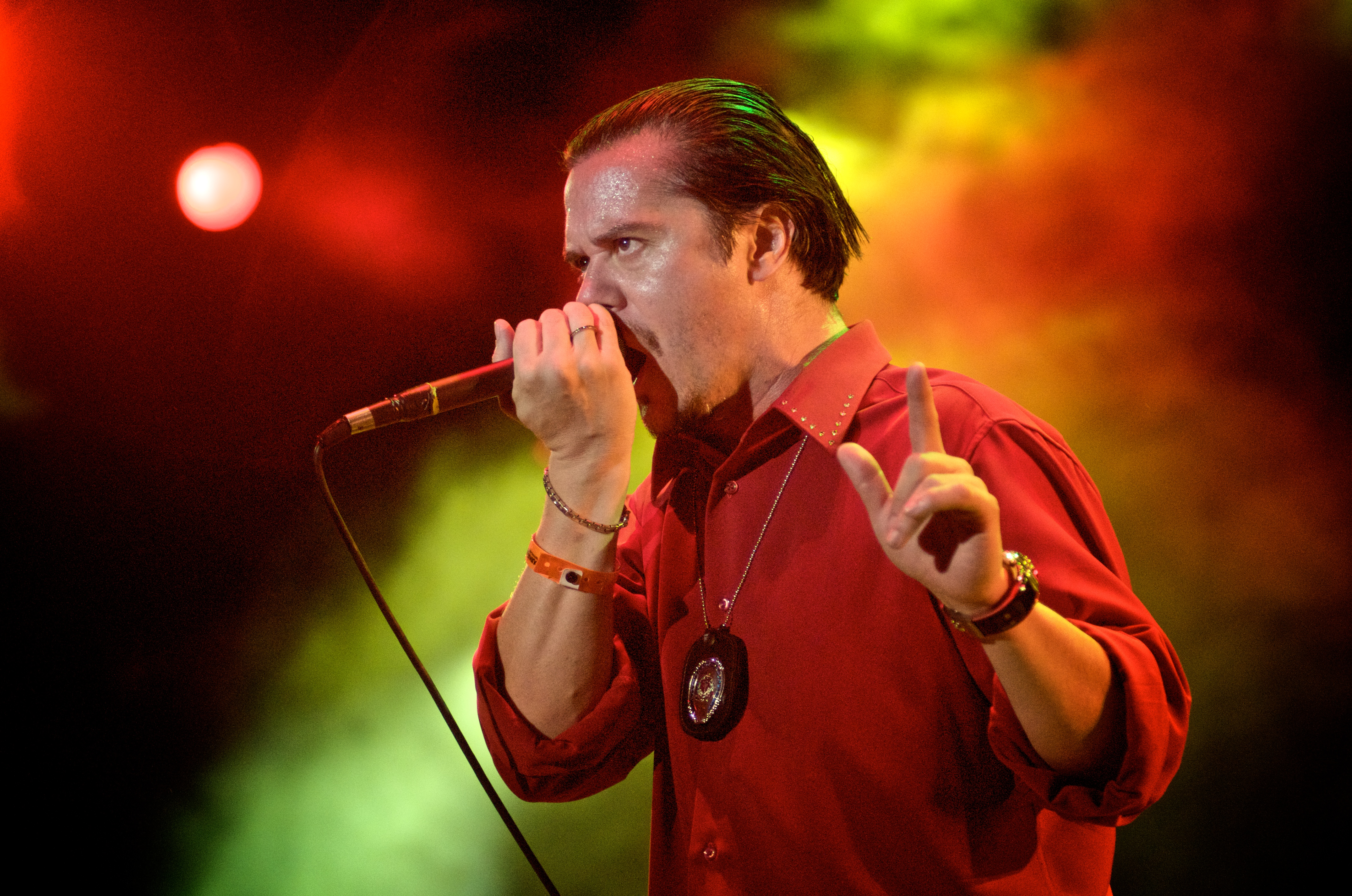 PFaith No More in Maquinária Festival, occurred in November 7 2009 at São Paulo, Brazil.